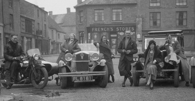 Stow on the Wold